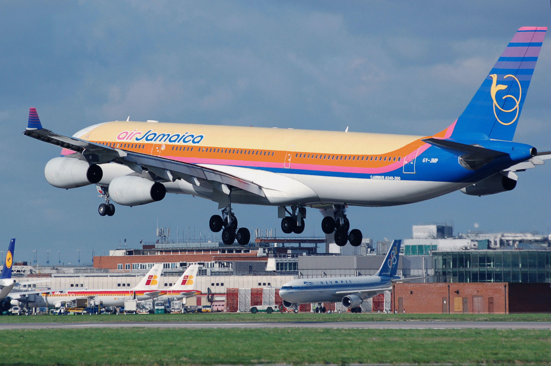 An Air Jamaica Airbus A340-300 (registration 6Y-JMP) landing at London Heathrow Airport, England. In the background (left to right) are aircraft from Lufthansa (Germany), Iberia (Spain) and Olympic (Greece).